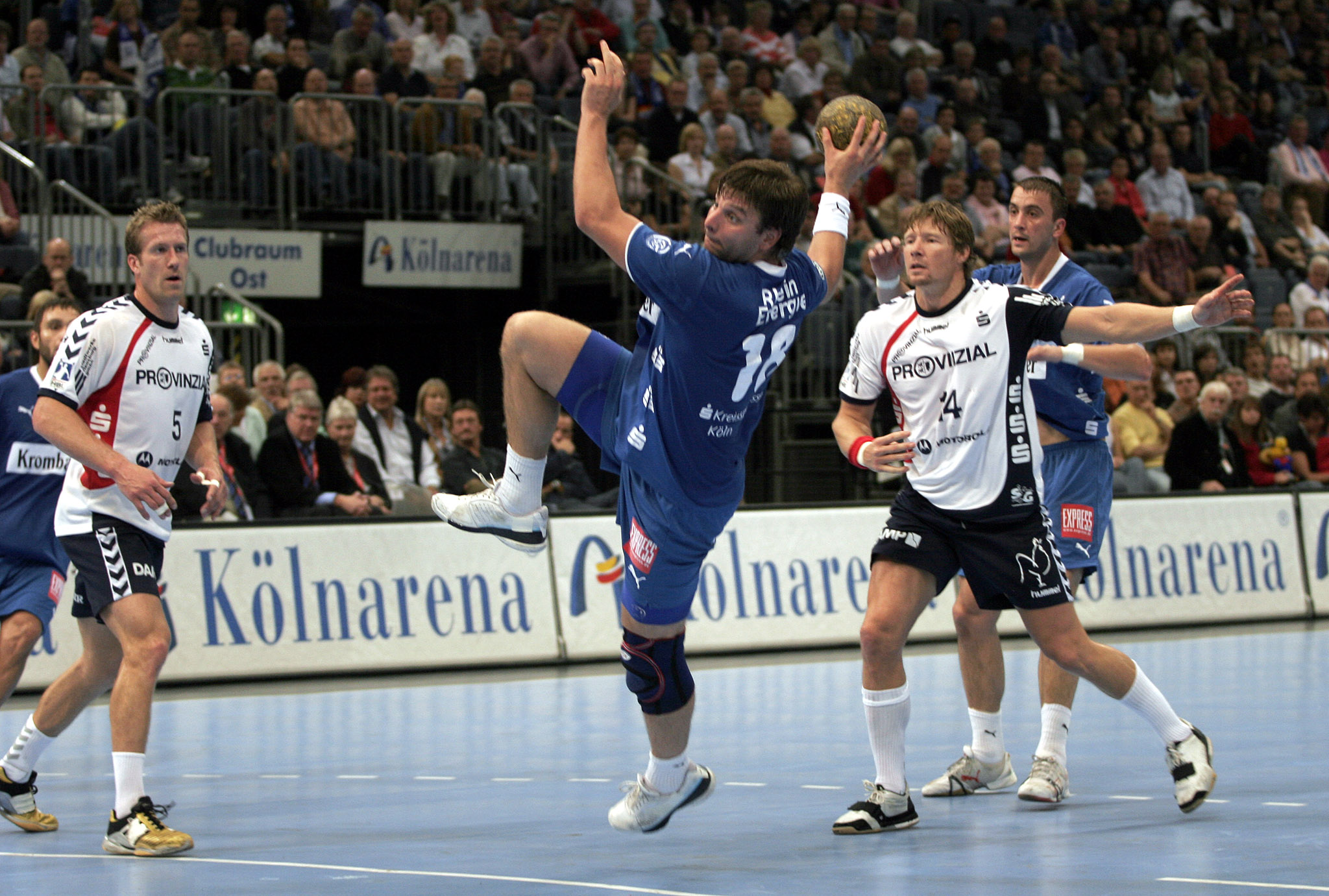 Róbert Gunnarsson, handball player of VfL Gummersbach, in the Kölnarena during the game VfL Gummersbach - SG Flensburg-Handewitt